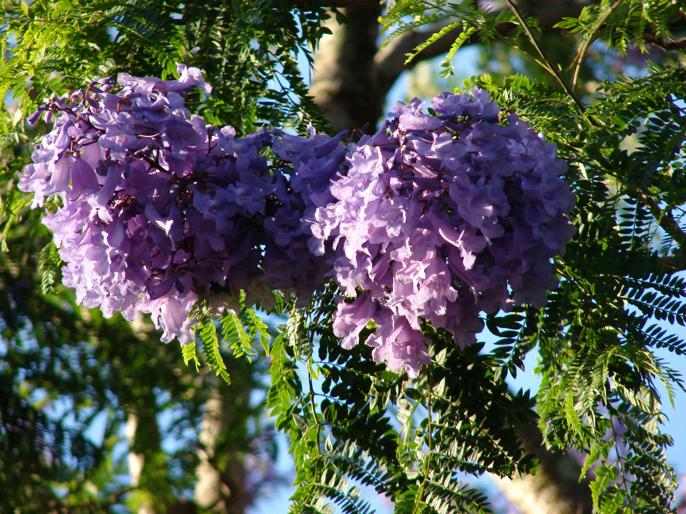 Jacaranda mimosifolia (flowers). Location: Maui, Makawao